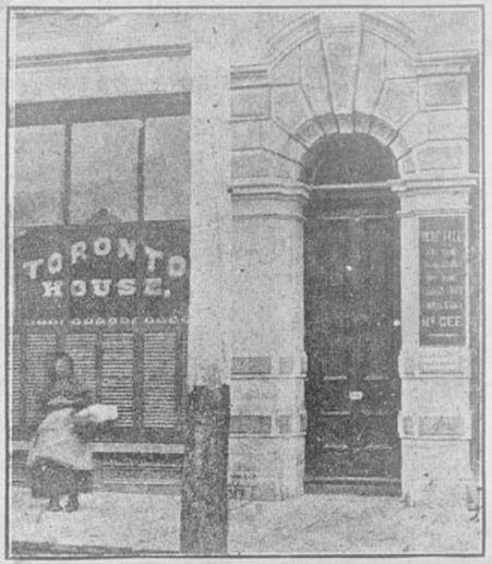 Plaque commemorating the assassination of D'Arcy McGee at the boarding house on Sparks Street in which he resided. Ottawa, Canada.